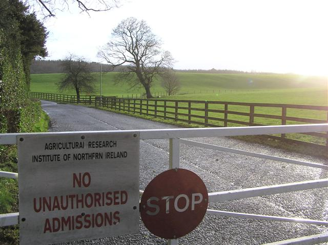 Agricultural Research Institute of Northern Ireland Could be top secret! - happily the view was captured from within the square.